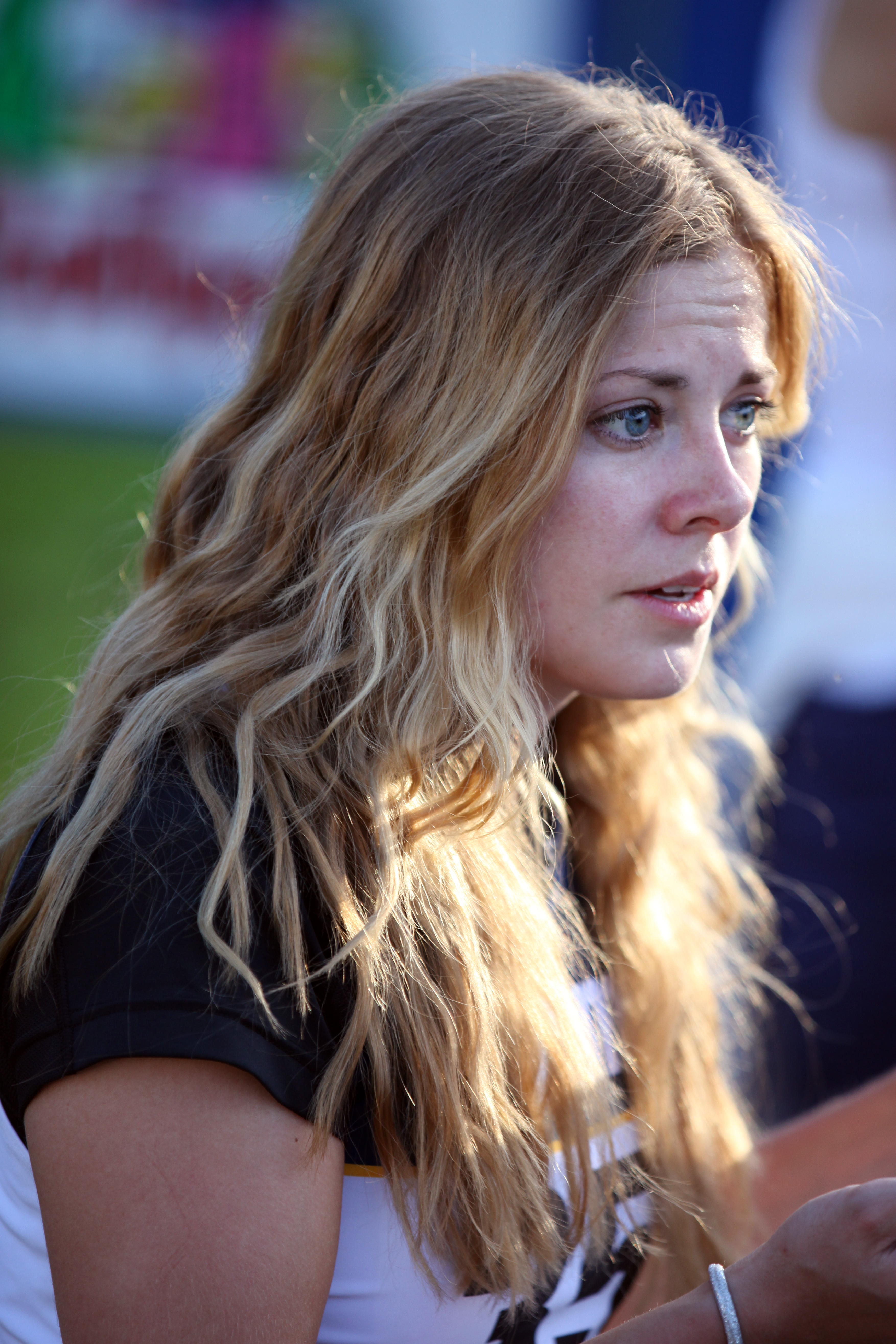 Anette Sagen at the Summer Grand Prix Ski Jumping in Hinterzarten